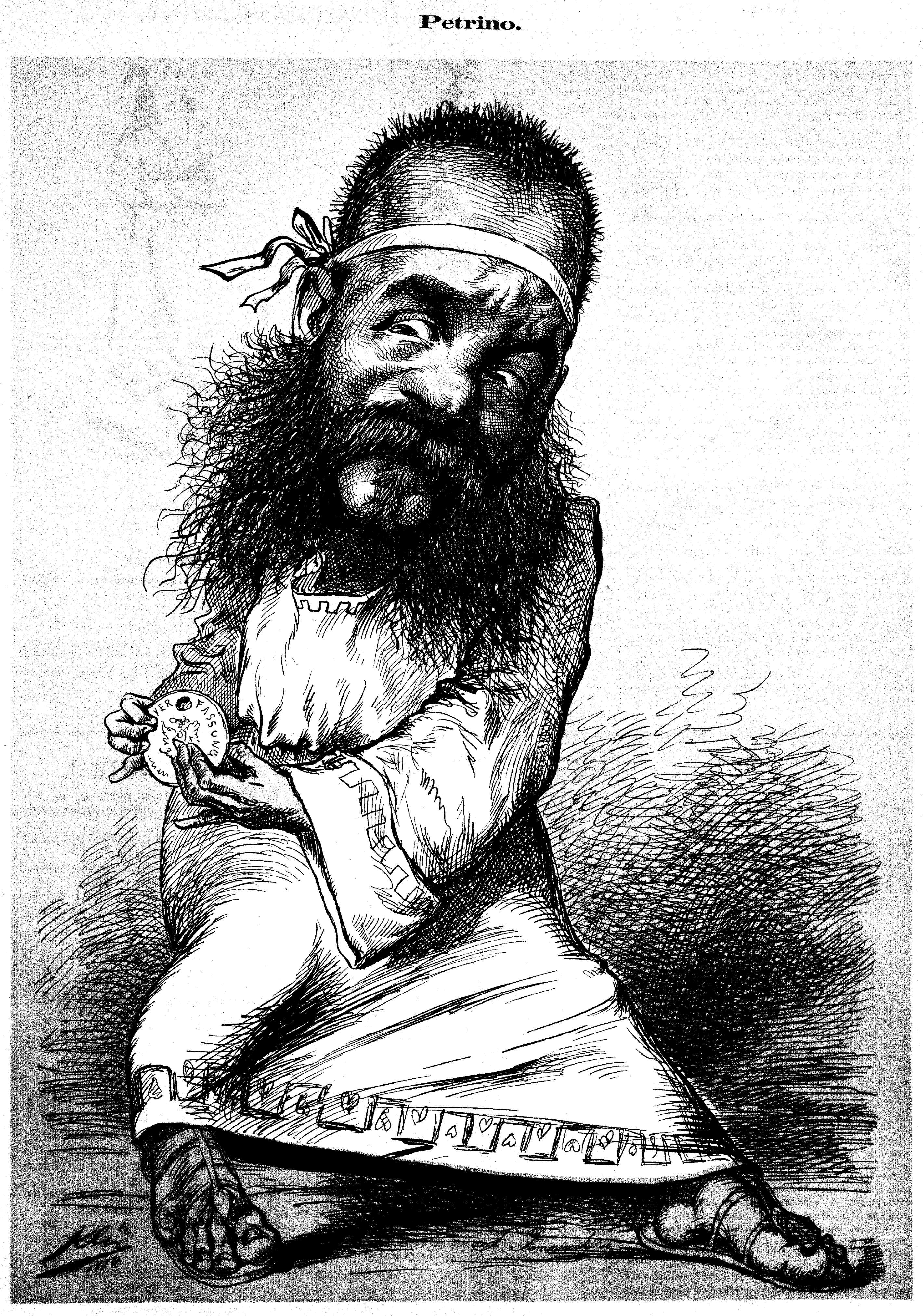 Cartoon of Alexander von Petrino (1824-1899), Austrian politician of Greek and Romanian origin.